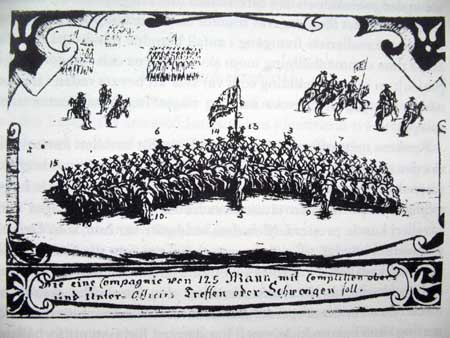 Swedish cavalry formation as seen in the drill regulations of year 1707.